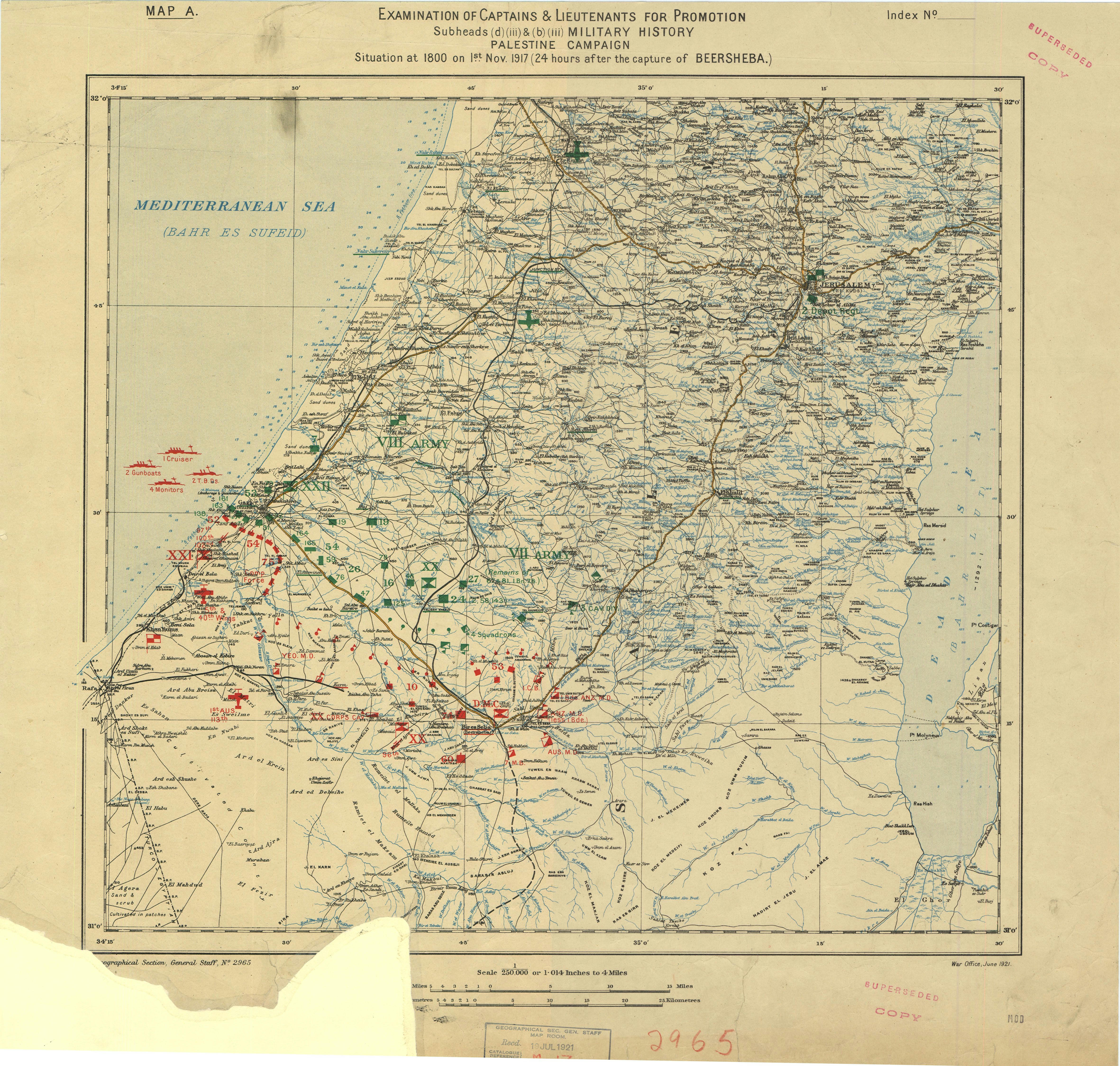 World War I Palestine campaign: Situation at 1800 on 1st Nov. 1917 (24 hours after the capture of Beersheba), GSGS 2965 Immediately prior to the release of the Balfour Declaration